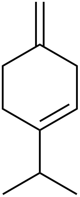 chemical structure of beta-tepinene